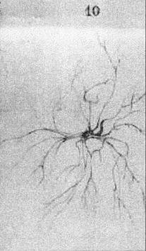 Astrocyte (Deiters, 1865)